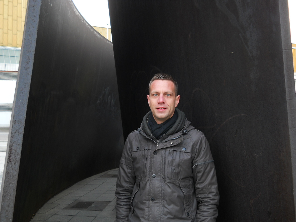 Albert Horne in front of Richard Serra's "Berlin Junction" memorial at the Berlin Philharmonie. Photo taken by me on 26 December 2012 using Nikon Coolpix L21 camera.